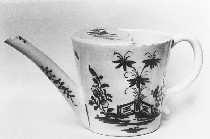 British, Lowestoft; Cup; Ceramics-Porcelain